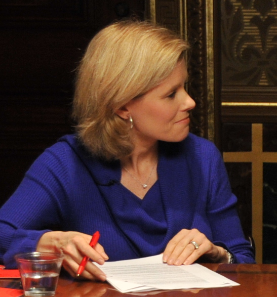 Secretary Sebeblius participates in a Web chat with iVillage's Kelly Wallace to discuss bullying on Thursday March 10. HHS photo by Chris Smith